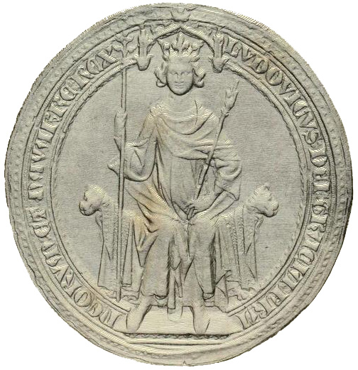 Seal of Louis X of France.